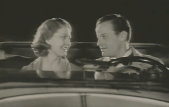 Merna Kennedy and John Darrow in The Big Chance (1933) - cropped screenshot